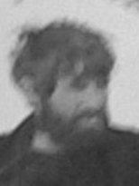 Sidney Jeffryes, wireless operator at the Main Base during the Australasian Antarctic Expedition.